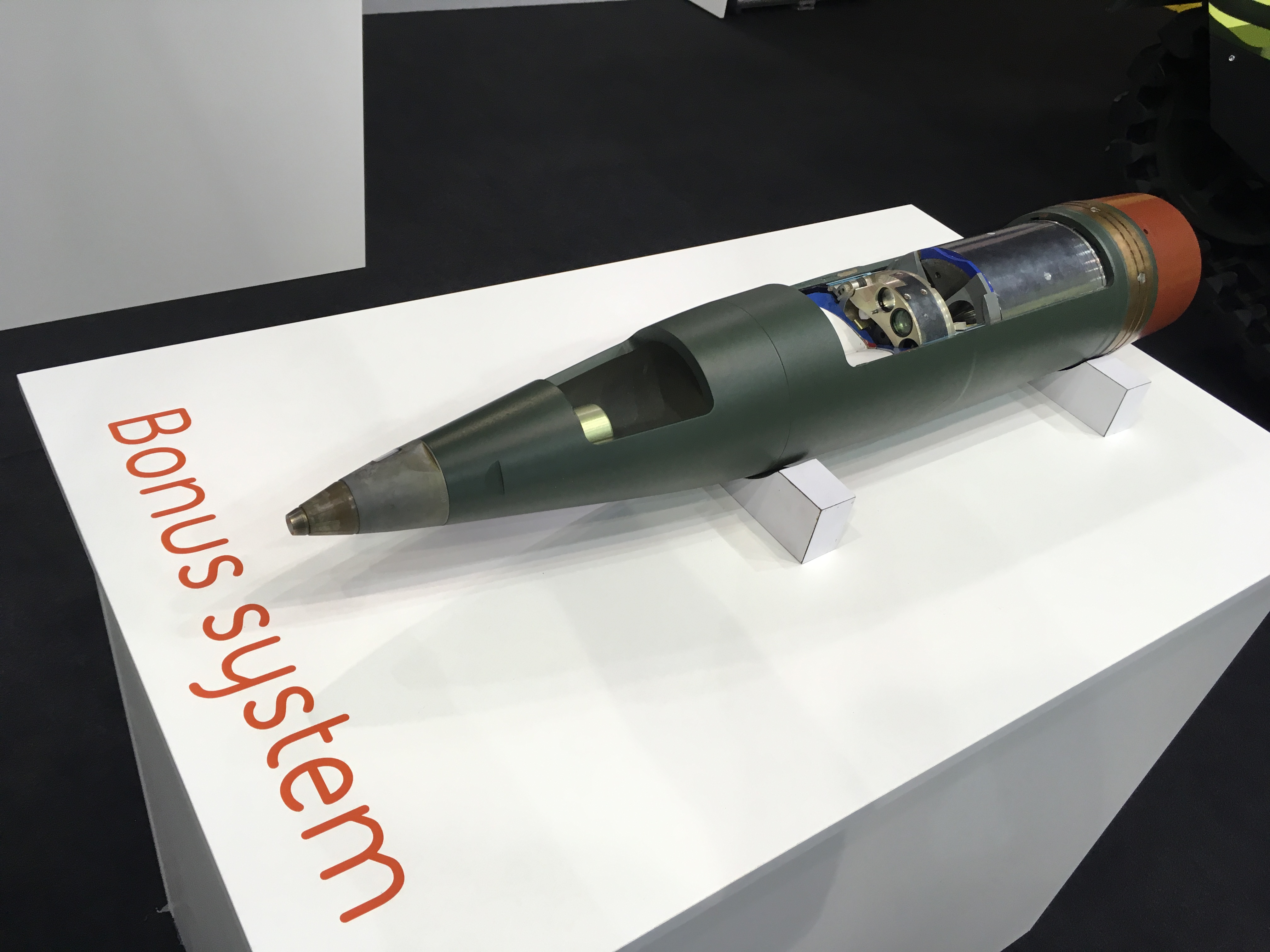 BONUS 155 mm Construction on Future Forces Forum, Prague, Ocrober, 2018